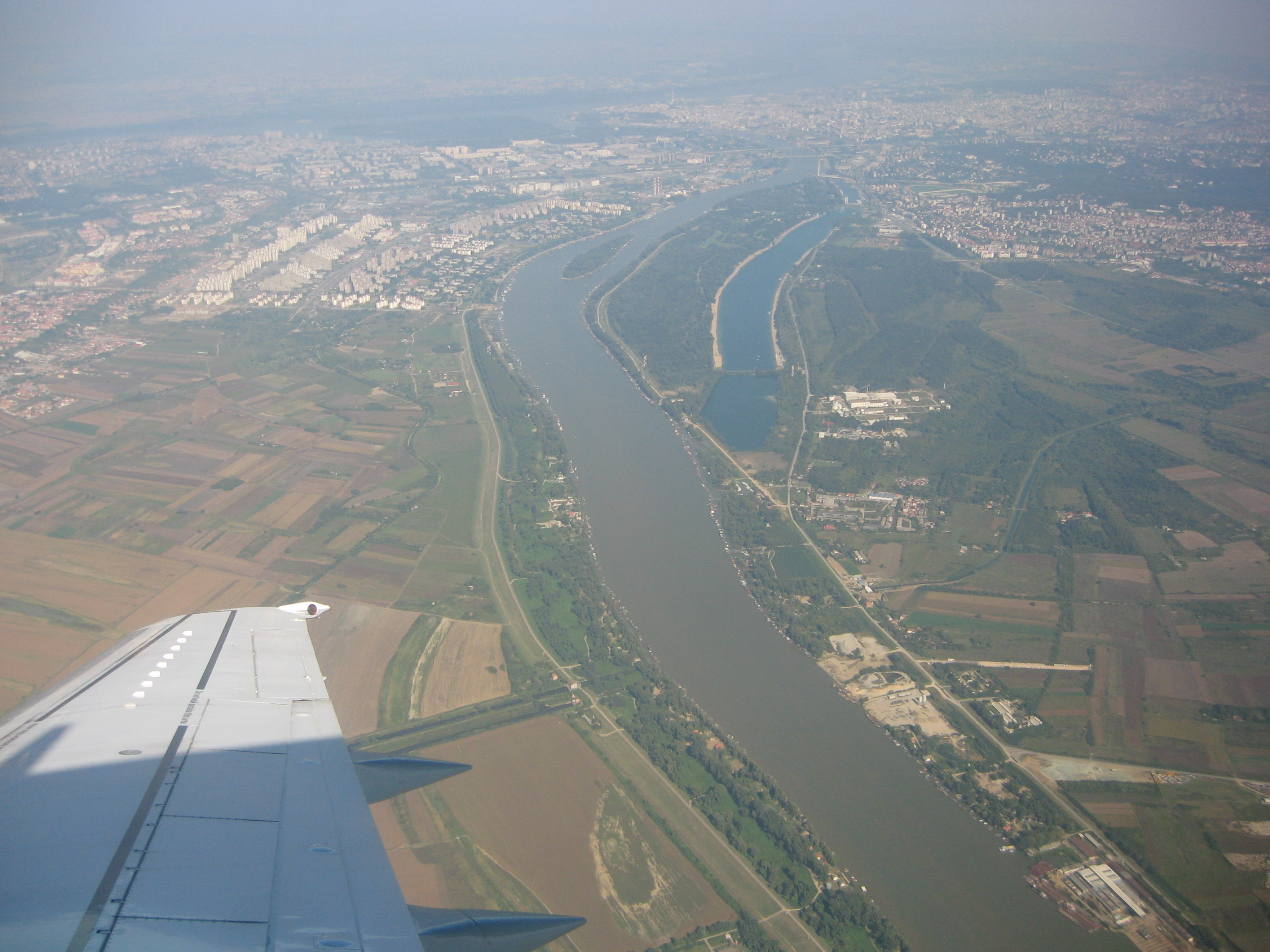 Aerial Photograph of Ada Ciganlija in Belgrade, Serbia. Sep., 2010